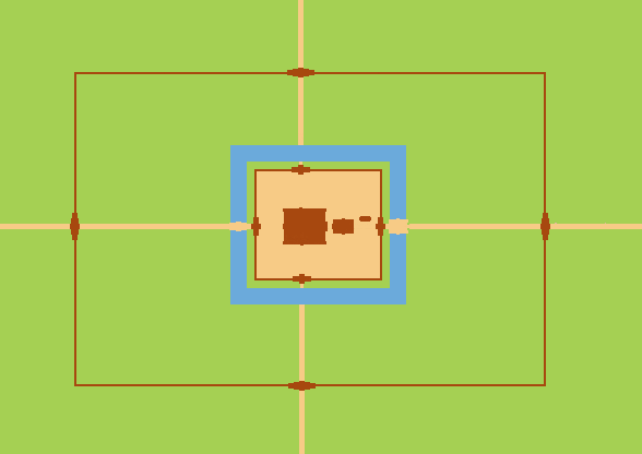 Banteay Kdei plan. Angkor. Cambodia